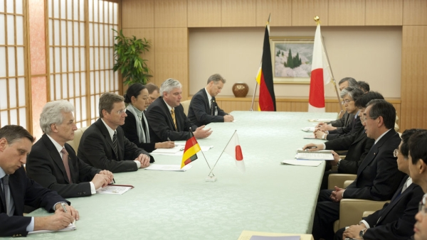 Guido Westerwelle, Foreign minister of Germany, had a conversation with Takeaki Matsumoto, his Japanese counterpart, in Tokyo.